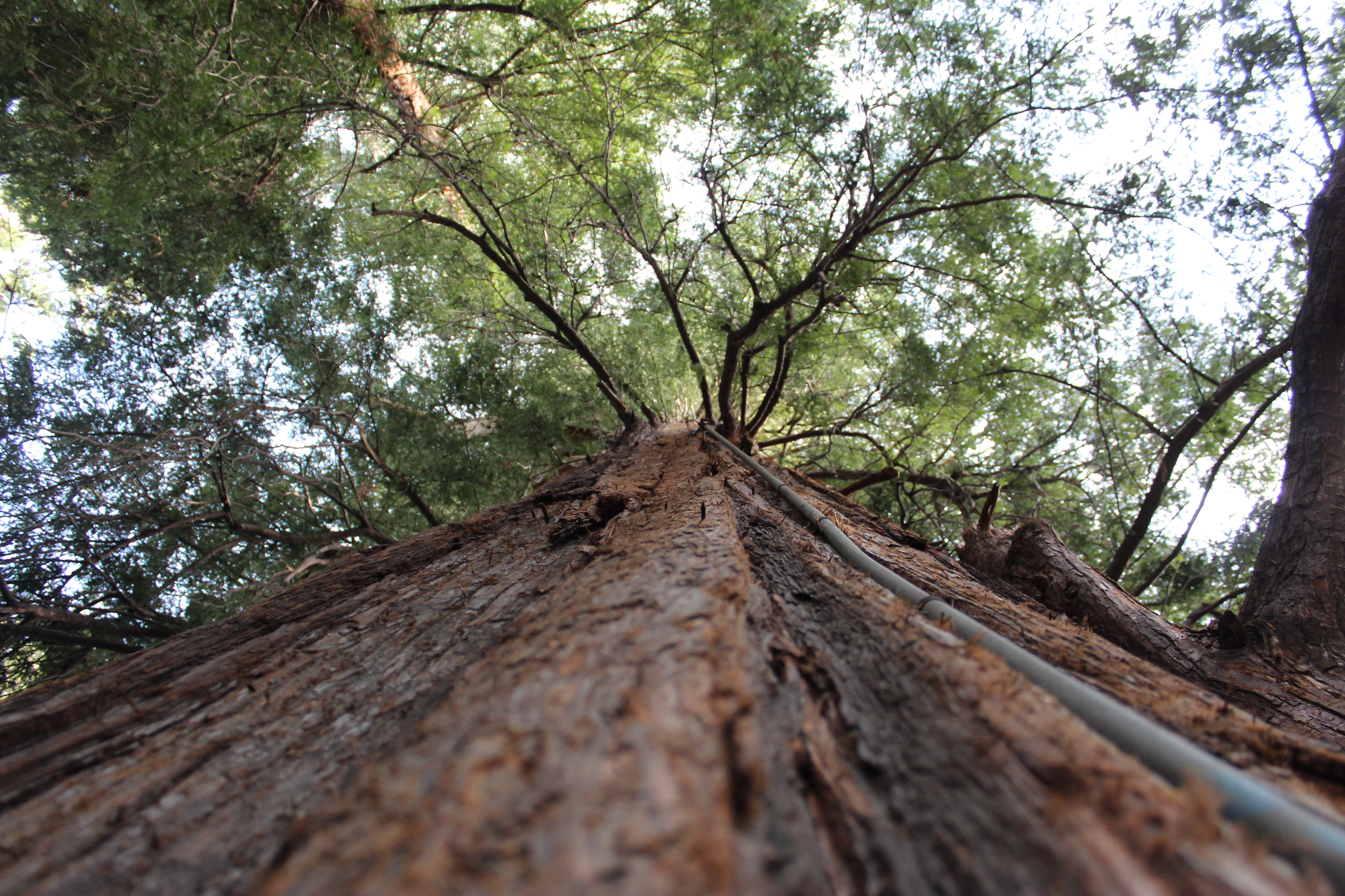 The irrigation system for El Palo Alto, as viewed from below.